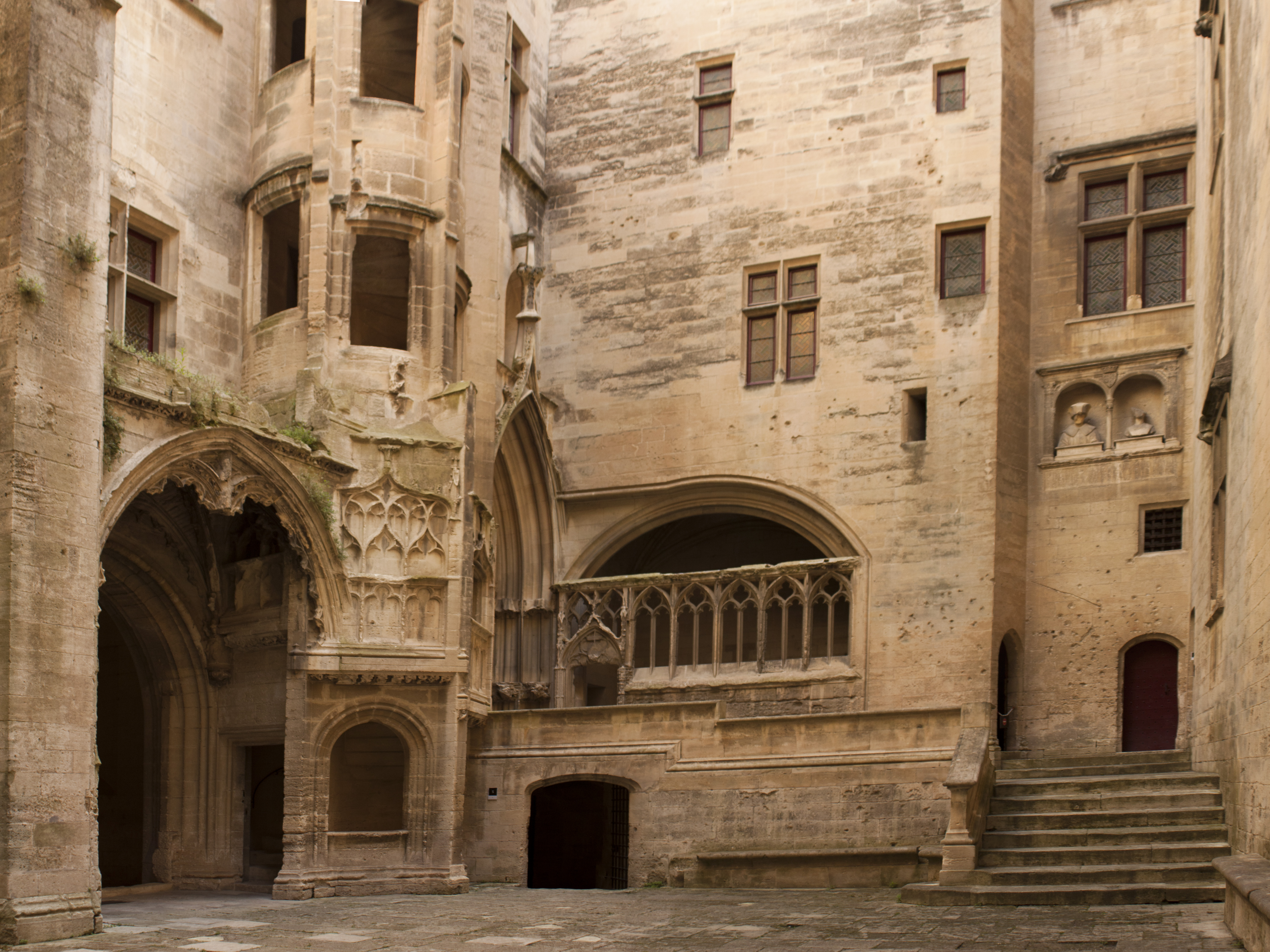 Honor courtyard.